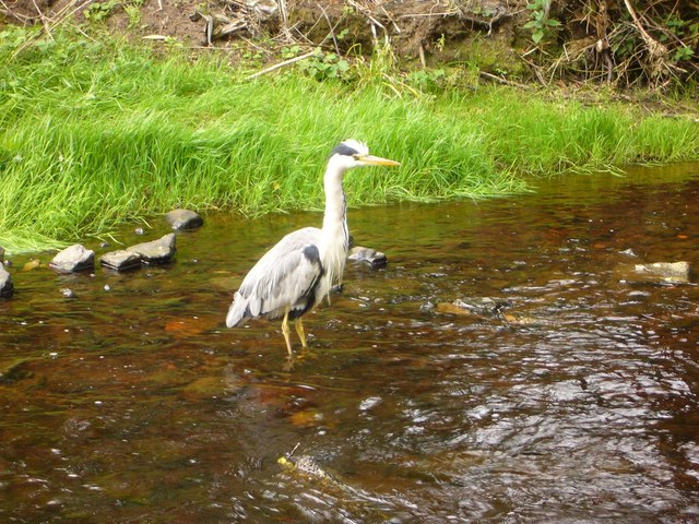 Herons are often see along the Water of Leith which runs comparatively hidden through the surrounding City of Edinburgh. This one was photographed near the Dean Bridge.